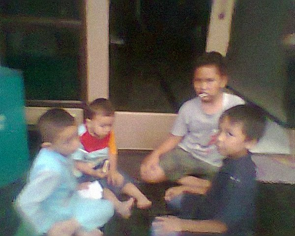 prang-pring